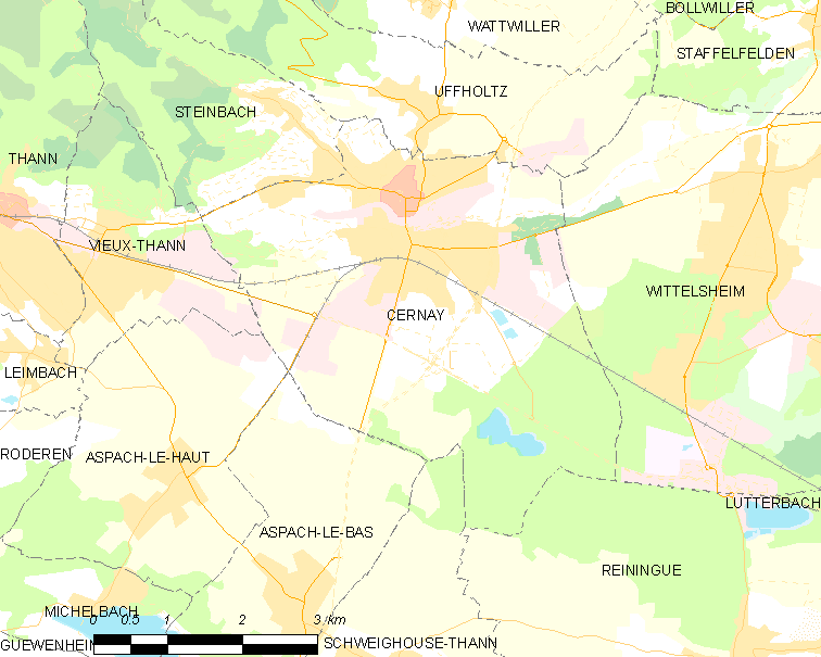 Map of French municipality